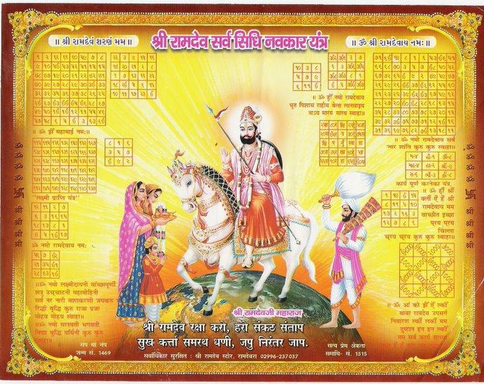 Baba Ramdevpir